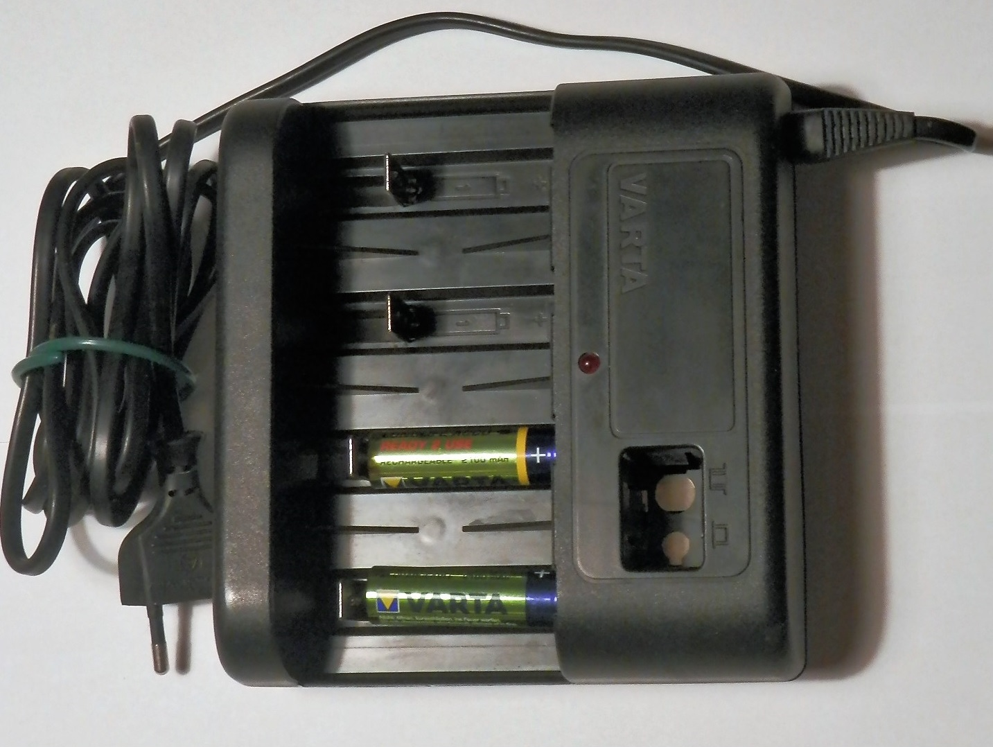 Varta baterry combi-charger with 2 Varta Ni/Cd (AA 2100mAh)